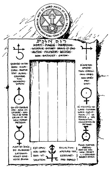 Porta Magica in Rome, engraving from Henry Carrington Bolton, The Porta Magica, Rome, in "The Journal of the American Folklore Society" 7, no. 24